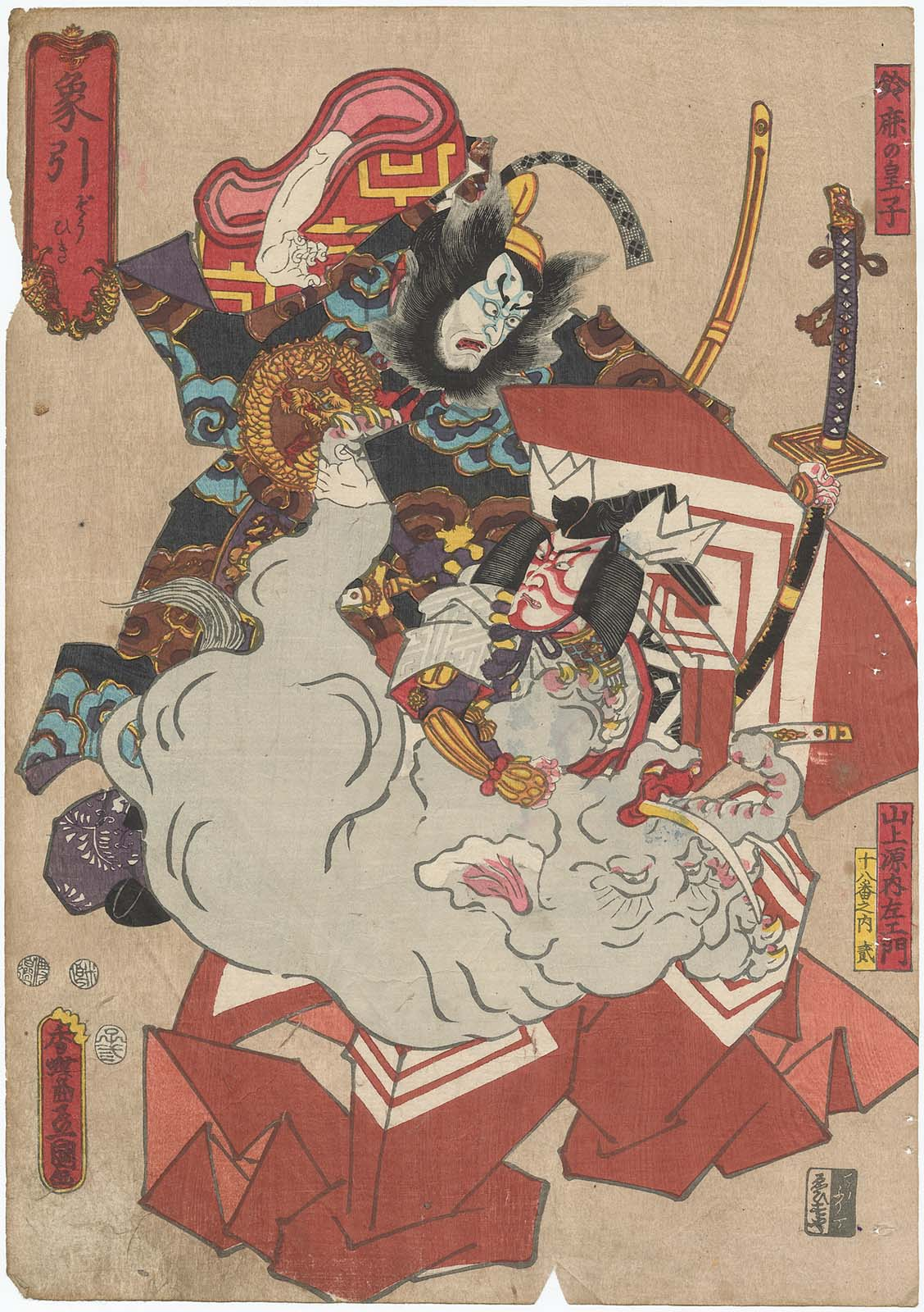 Part of the series The Eighteen Great Kabuki Plays, No. 02